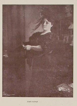 Feminal worker